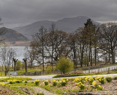 Ullswater